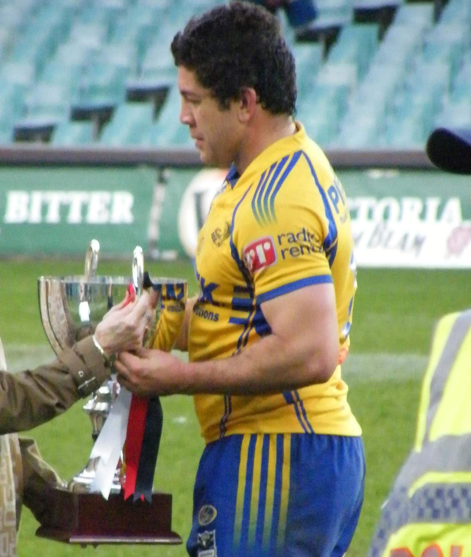 Parramatta Eels skipper Nathan Cayless receives the Jack Gibson cup from the widow of Jack Gibson.